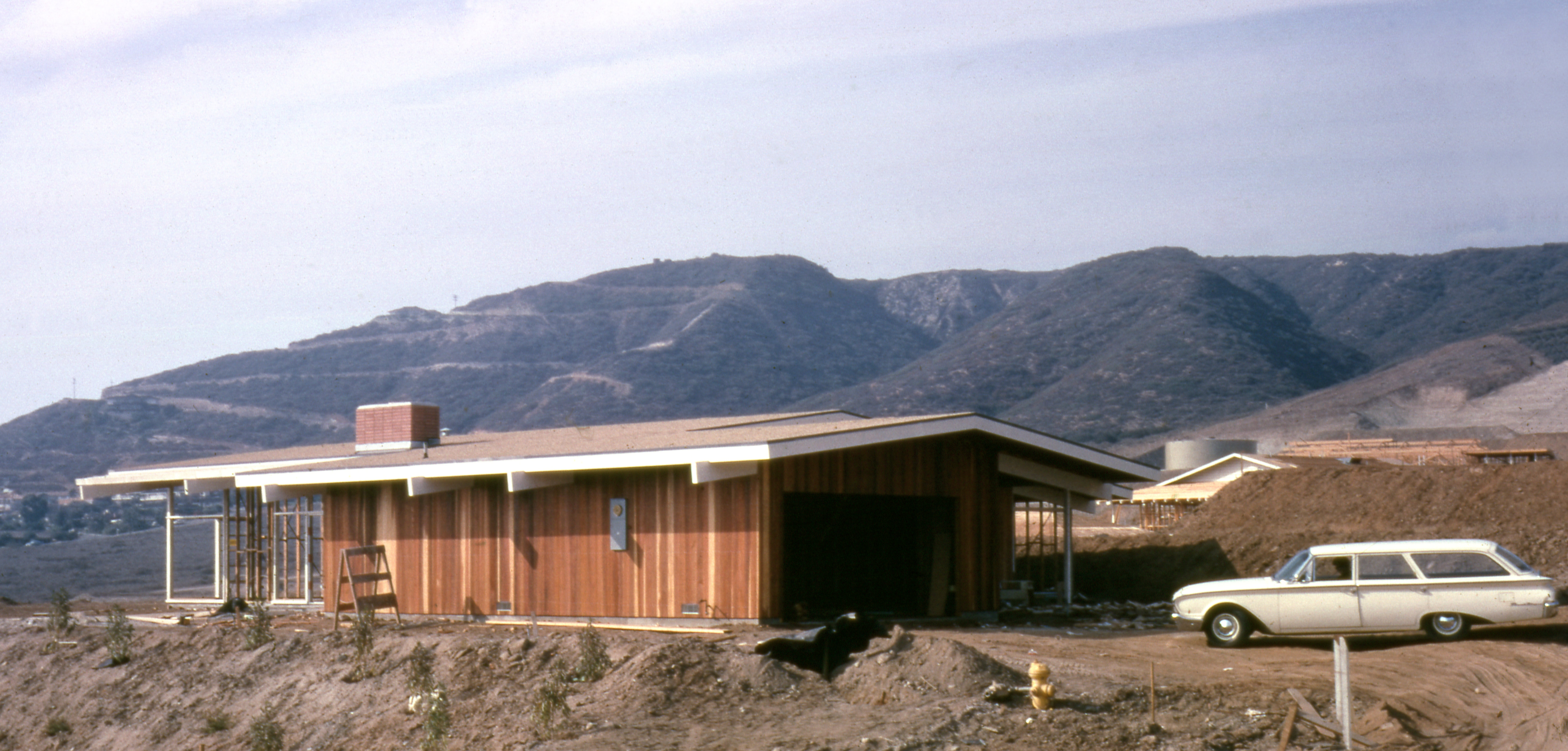 There are no known copyright restrictions on this image. All future uses of this photo should include the courtesy line, "Photo courtesy Orange County Archives." Comments are welcome after reading our Comment Policy. Image from the Al Osterhues Collection.